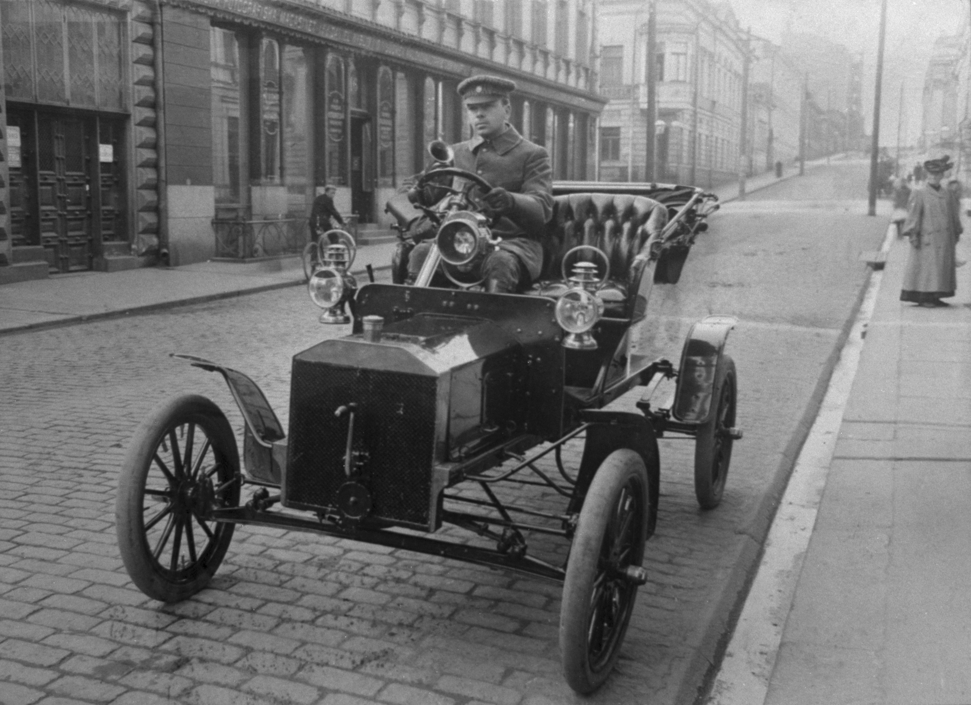 von Nottbeck -familys automobile ~1907.